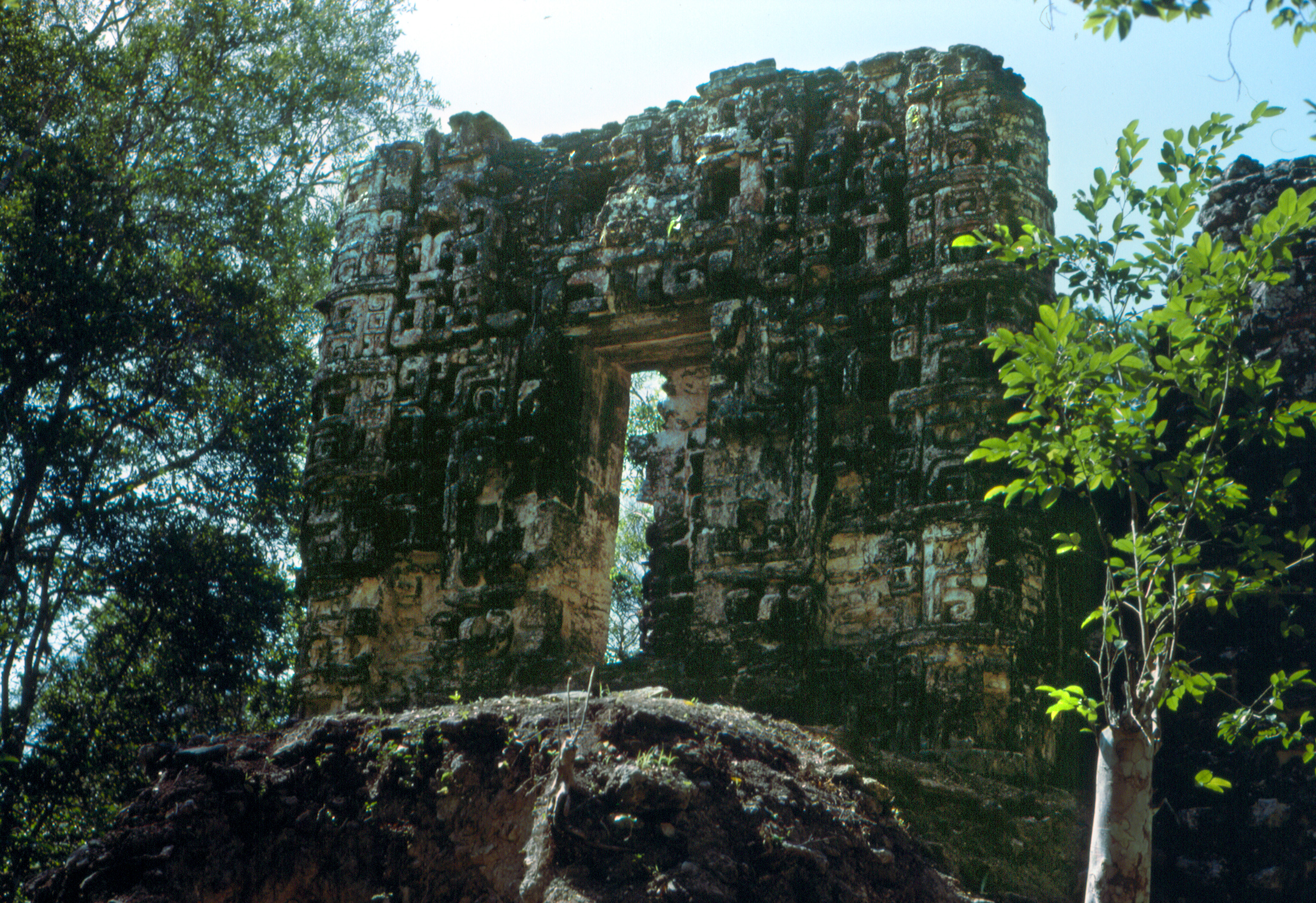 Hormiguero, Campeche, Mexico: Entrance in north side of building V.